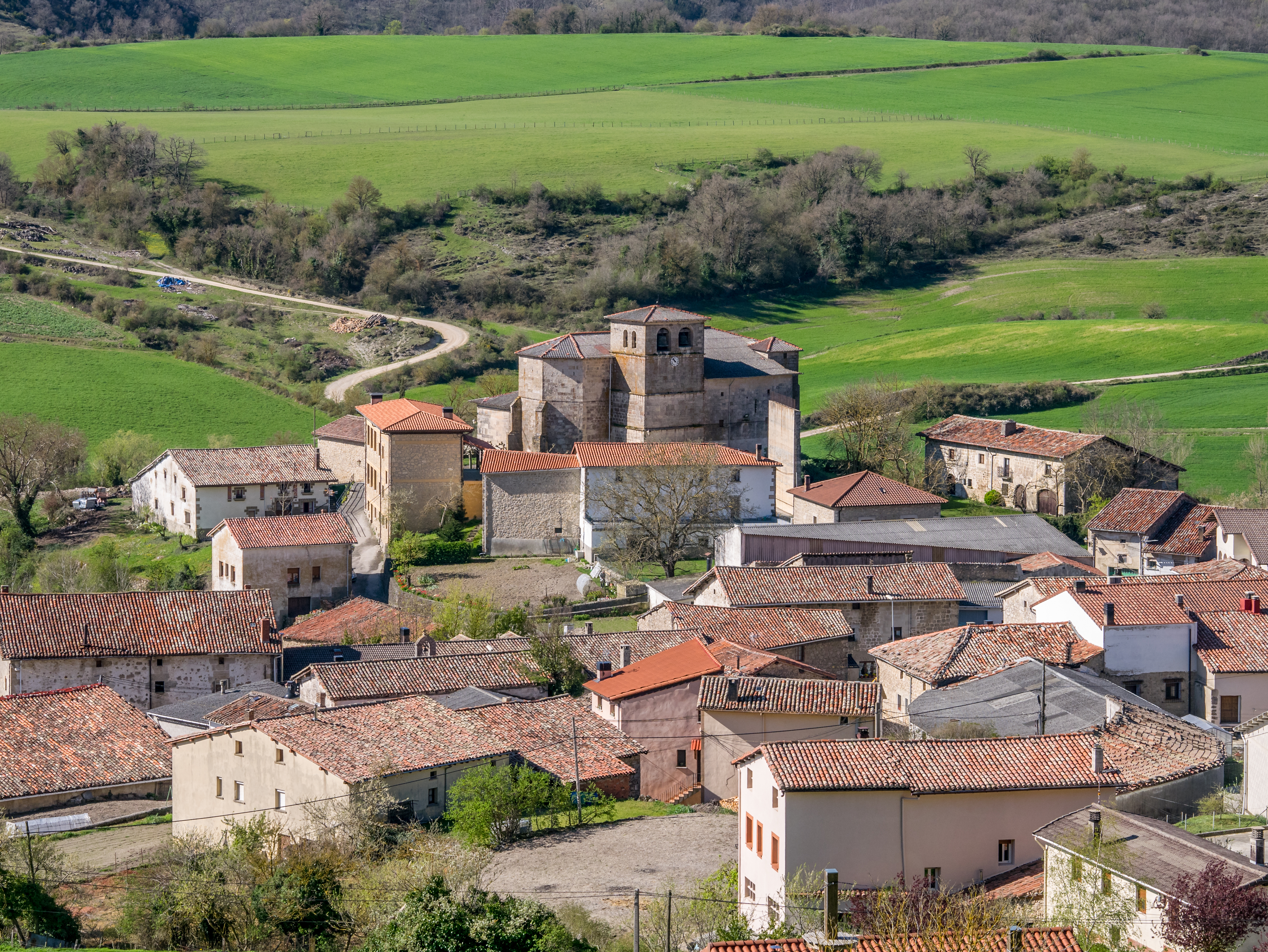 Larraona, Navarre, Spain